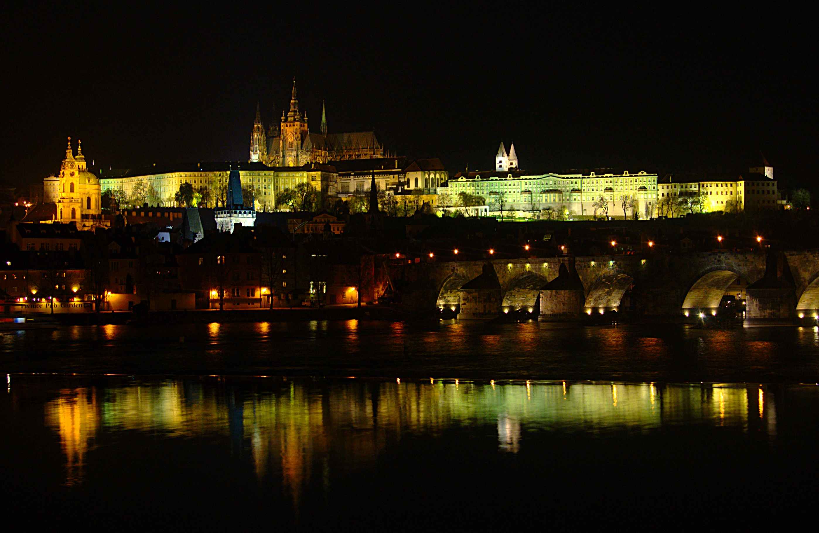 Prague Castle at night